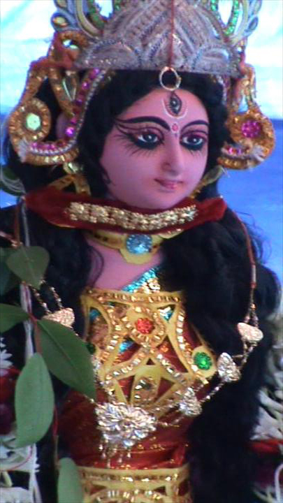 Image of Goddess Bipodtarini in Asansol Mahishilla Colony - 2010